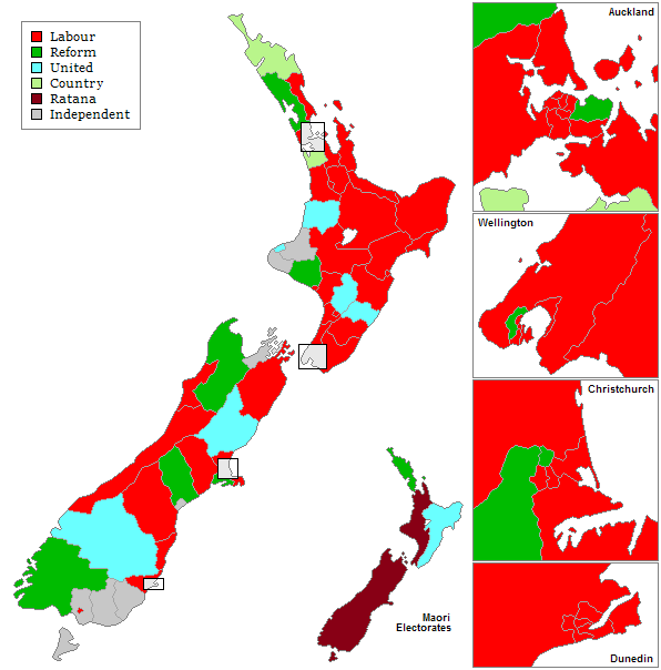 Map of New Zealand's 1935 elections.